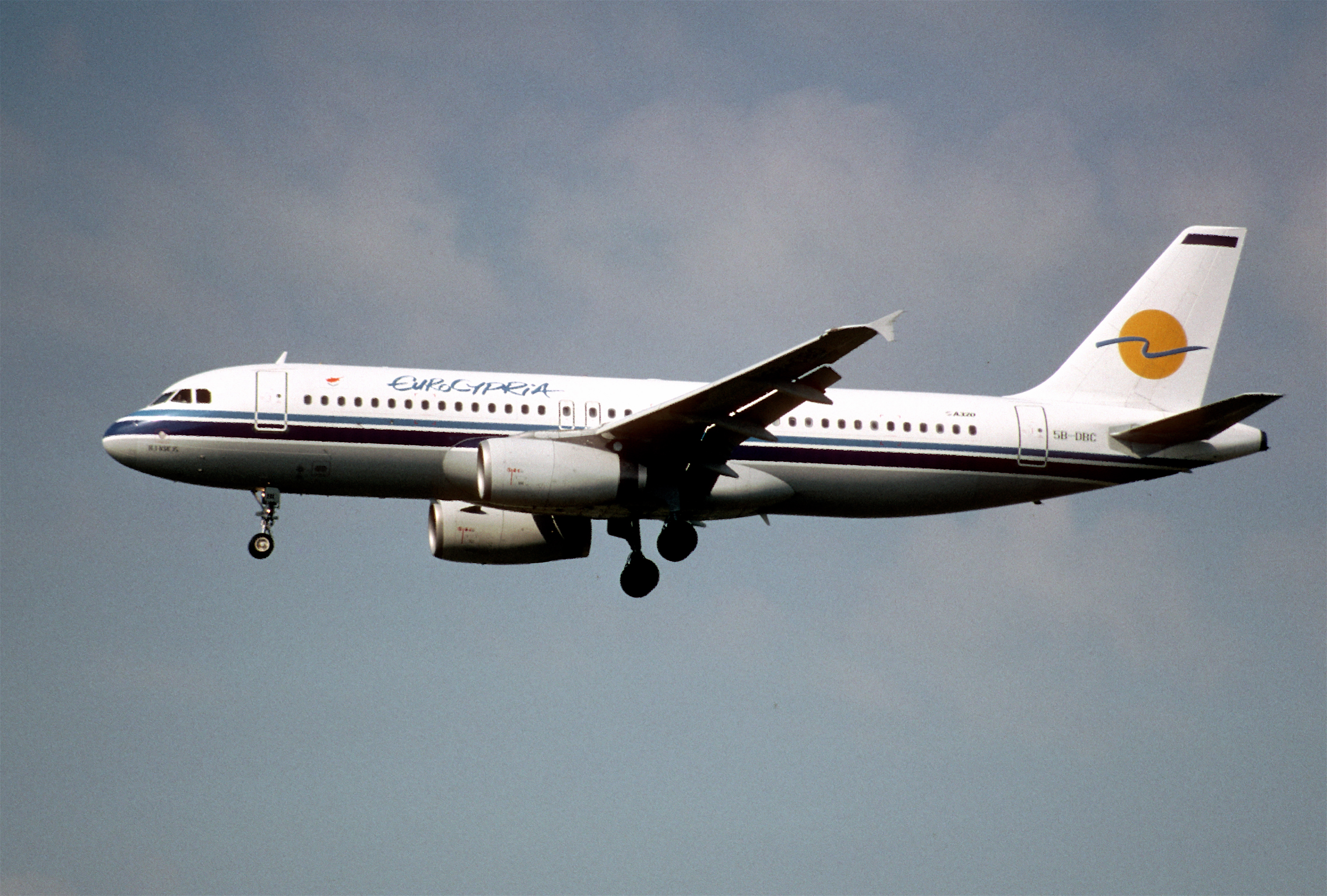 178bp - Eurocypria Airlines Airbus A320-231; 5B-DBC@ZRH;29.06.2002